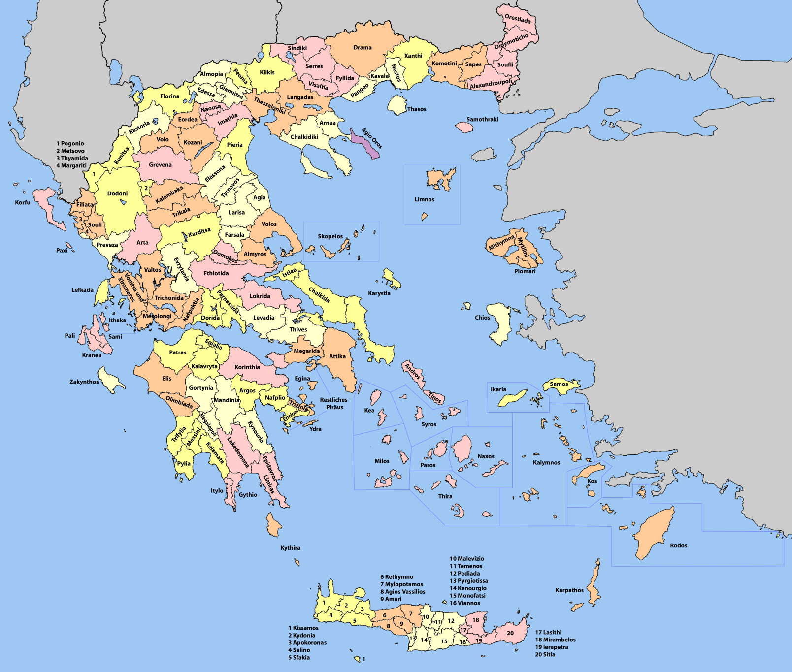 Map of former Provinces (επαρχίες) of Greece (until 1997)